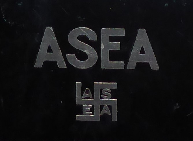 Äldre logo för ASEA